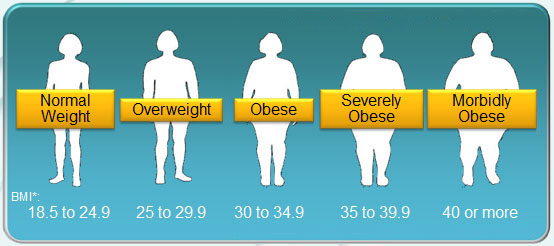 BMI weight obesity scale with man shapes